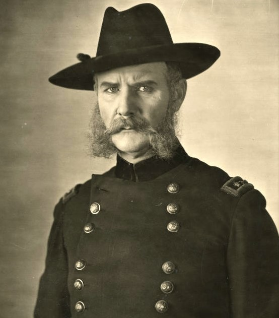 Clarence Geldart in the American drama film Held by the Enemy (1920) - publicity still (cropped)